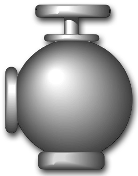 US Navy Utilitiesman (UT). A valve with flange to the front.